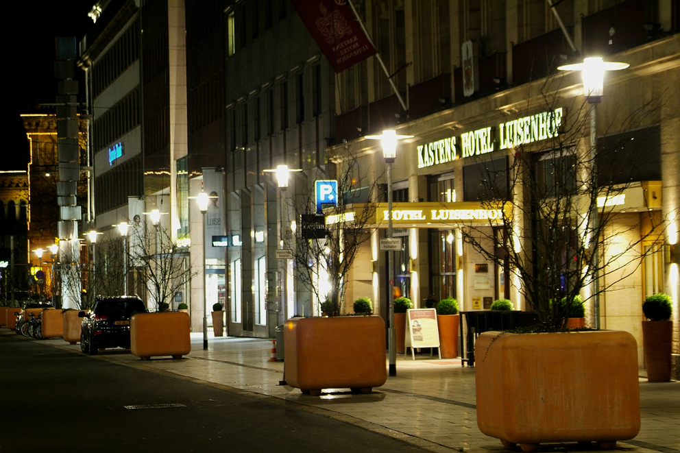 Hanover